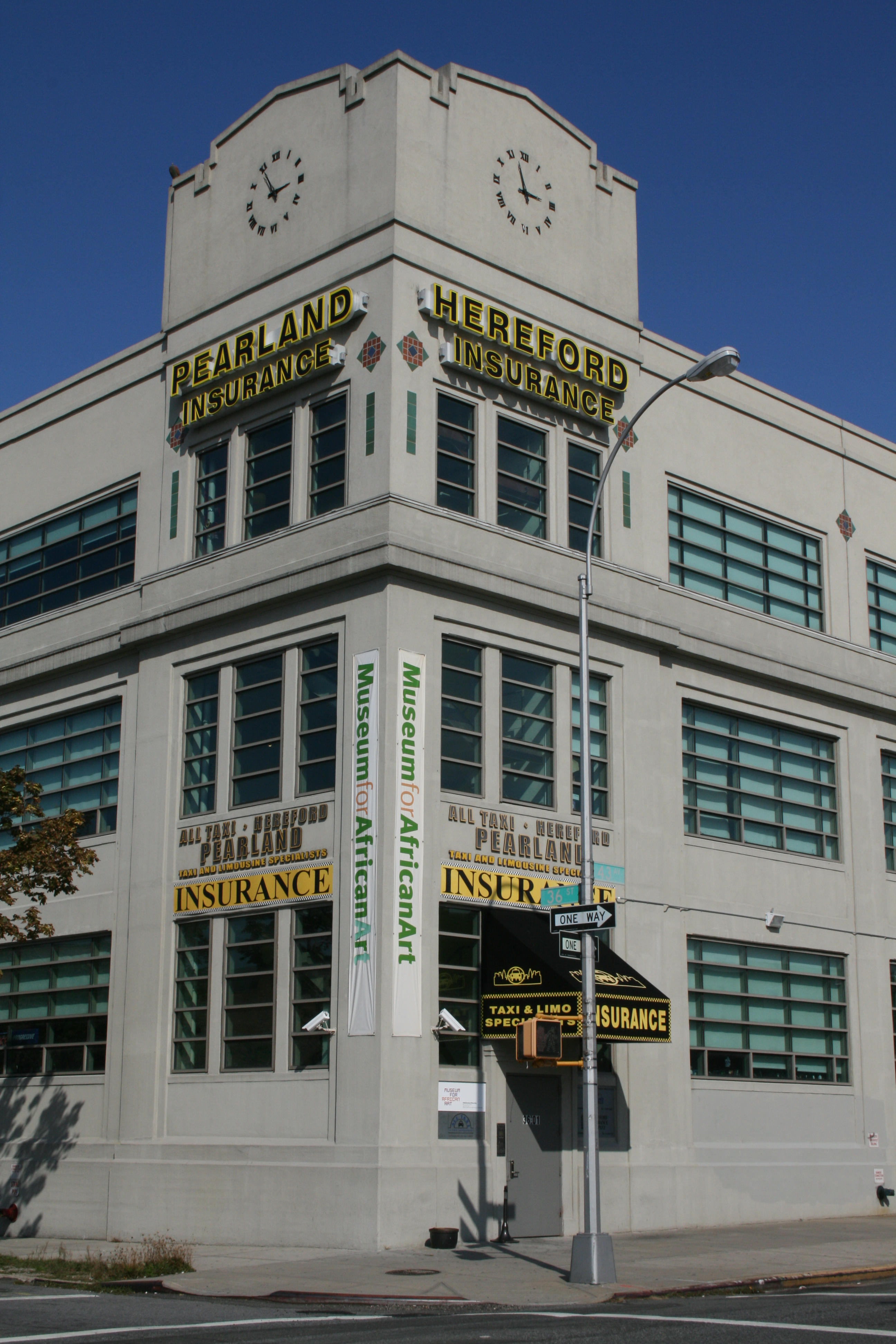 This photo is of Wikis Take Manhattan goal code L24, Museum for African Art.